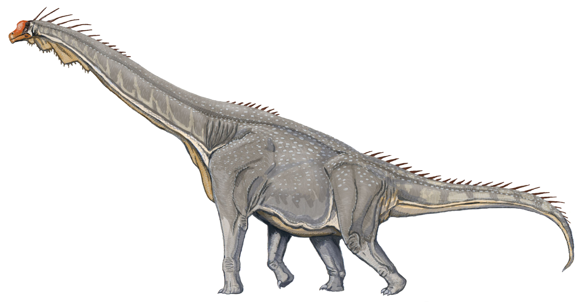 Brachiosaurus altithorax. Matches proportions in skeletal diagram by Scott Hartman.[1]